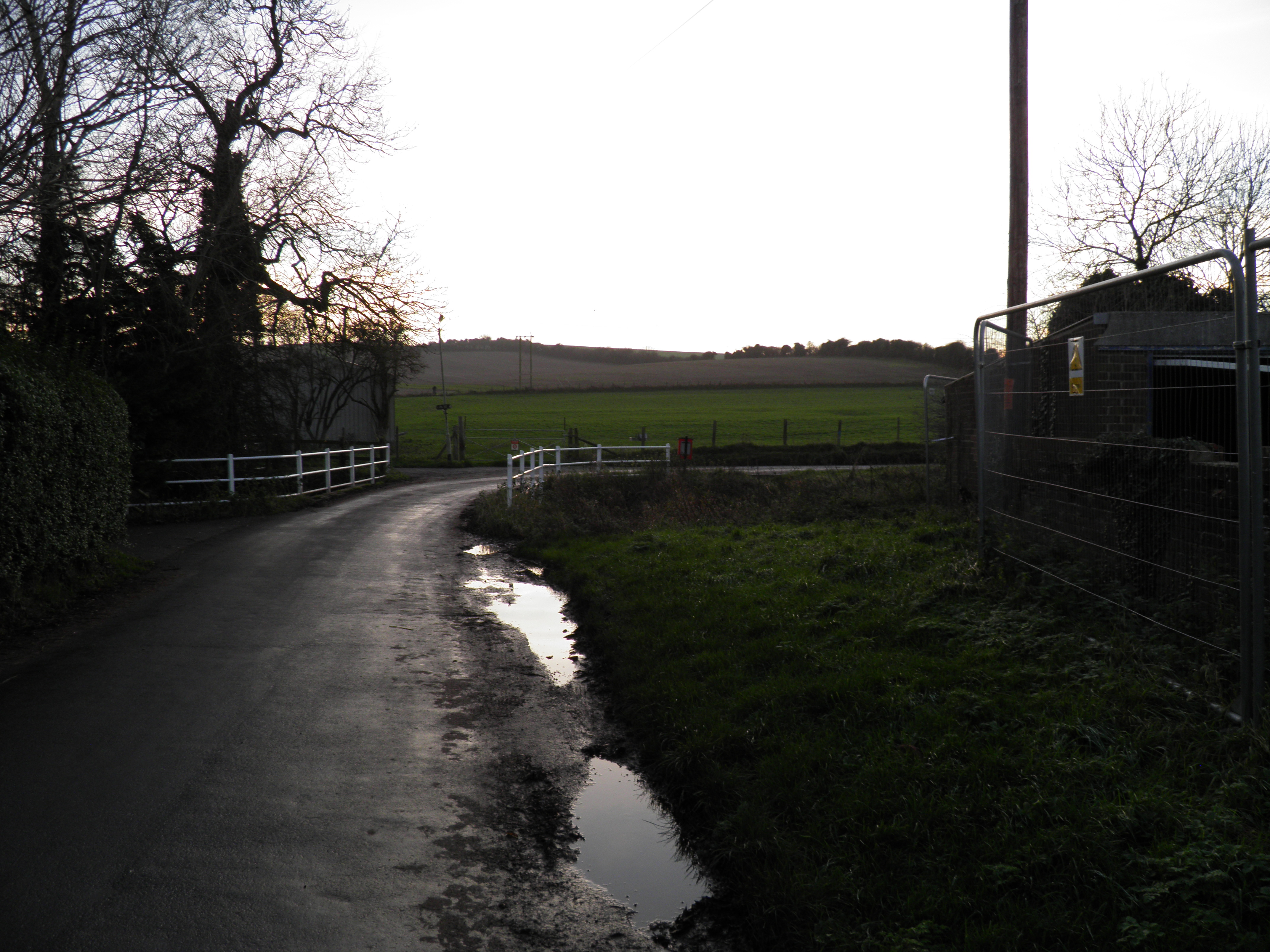 Site of the abandoned village of Bockhampton, Berkshire